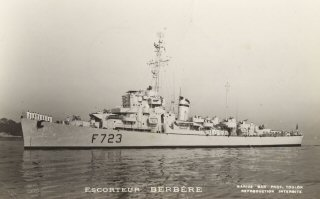 The French frigate Berbère (F723) underway on 17 July 1955.